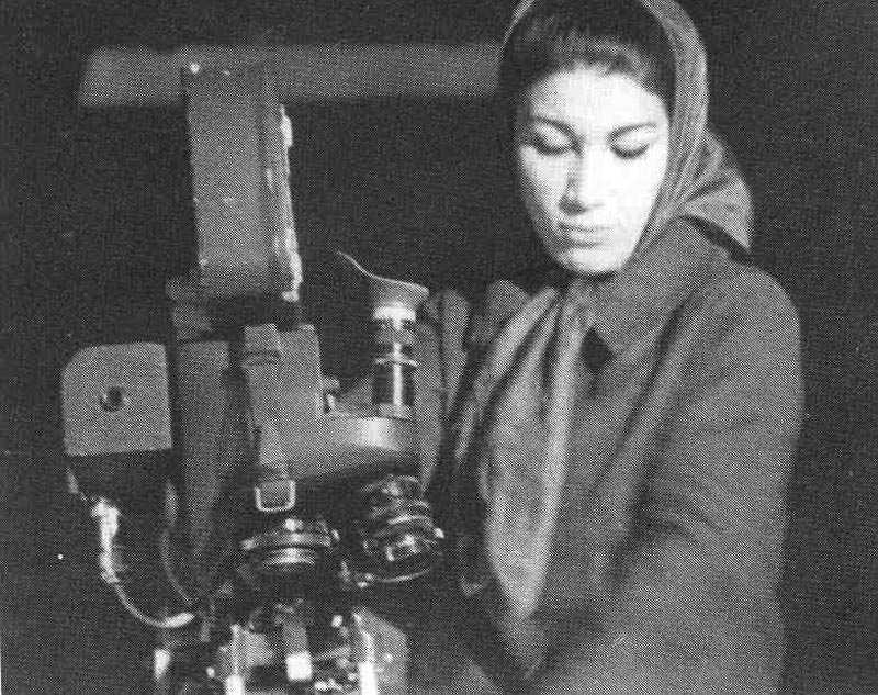 Forough Farrokhzad